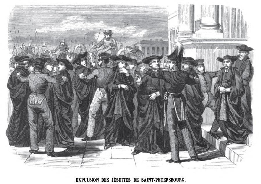 Exile of the Jesuits from Russia in 1815 (Geoffroy, 1845)